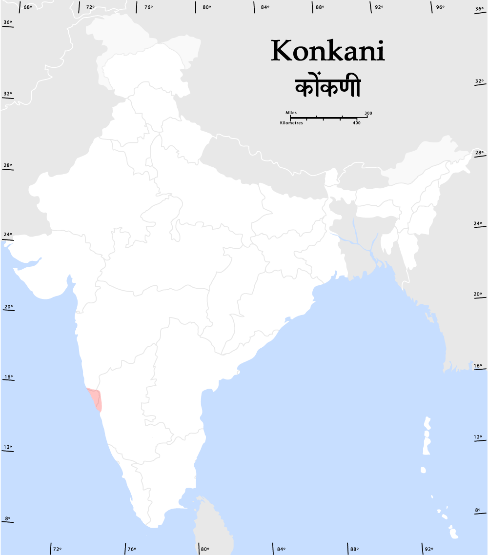 A map of the distribution of native Konkani speakers in India